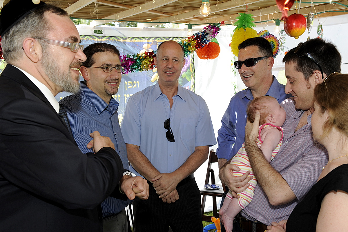 Sukkot Open House at the U.S. Ambassador Residence in Herzliya. October 14, 2011